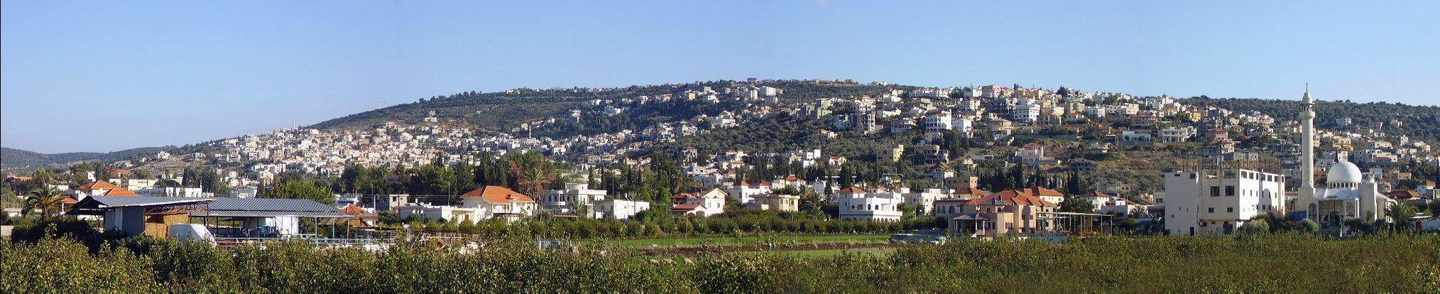 Ar'ara, Israel - looking south-east from road 65